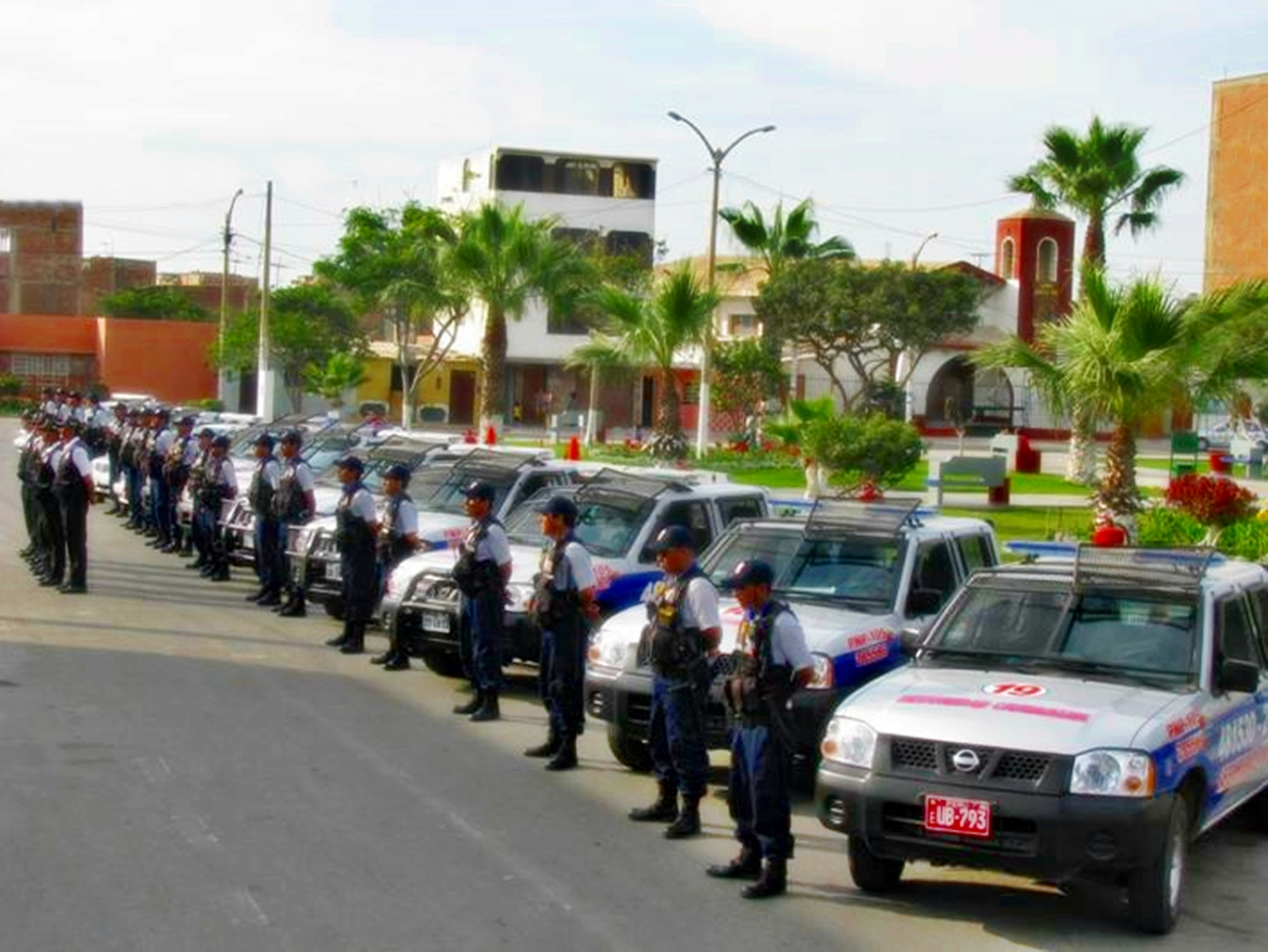 Base de Seguridad Ciudadana de Victor Larco Herrera en la ciudad de Trujillo